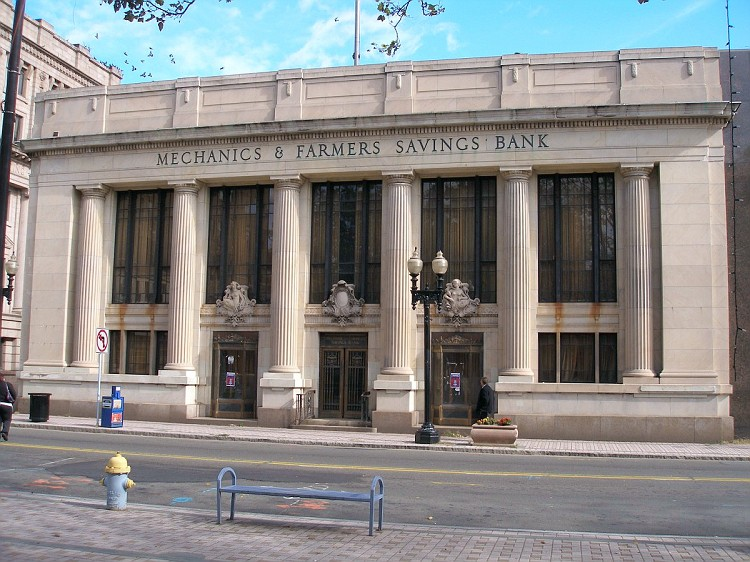 The Mechanics & Farmers Savings Bank Building, opposite McLevy Park in Bridgeport, Connecticut. Part of the Bridgeport Downtown South Historic District.